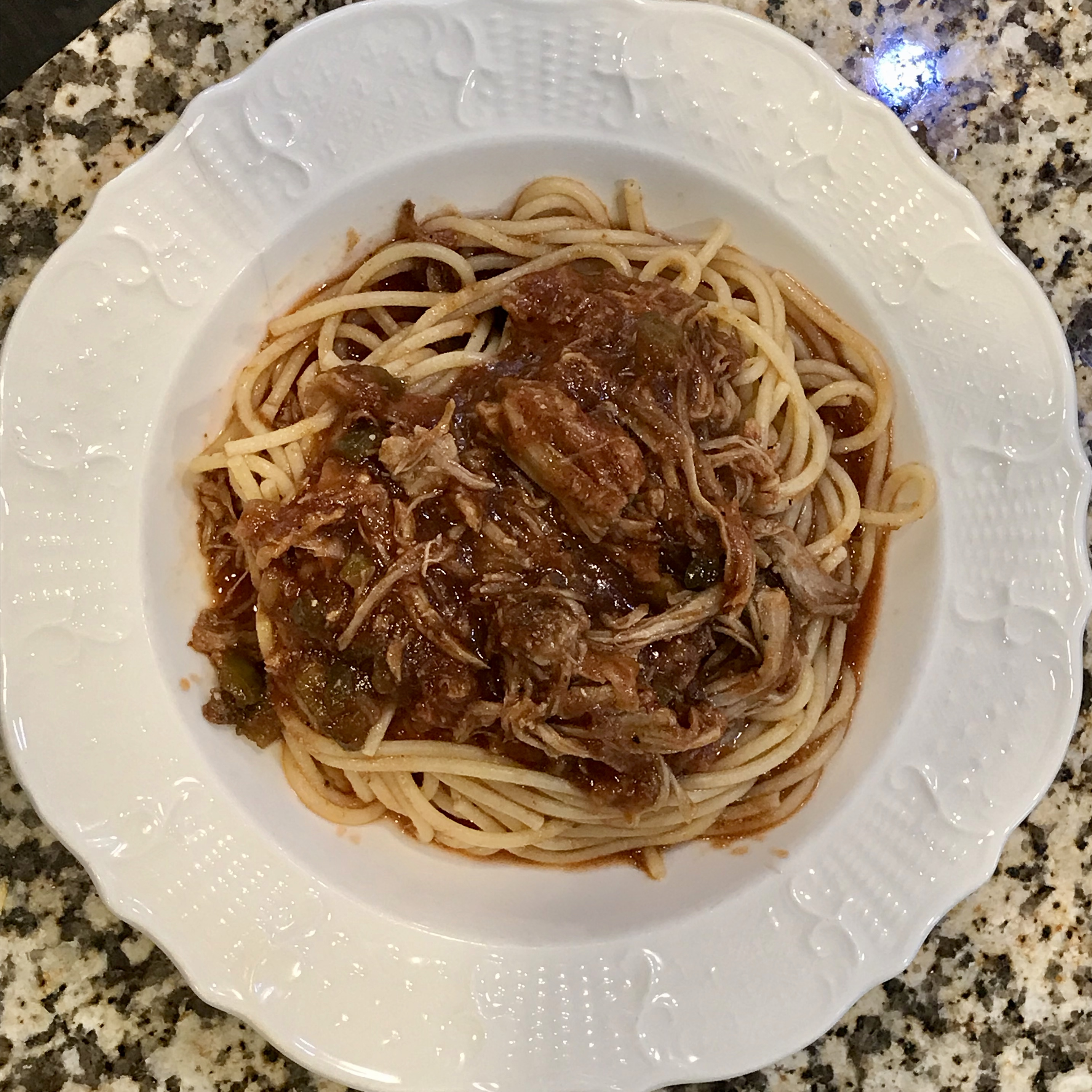 Spaghetti topped with pulled pork in a marinara sauce with a barbecue sauce base.